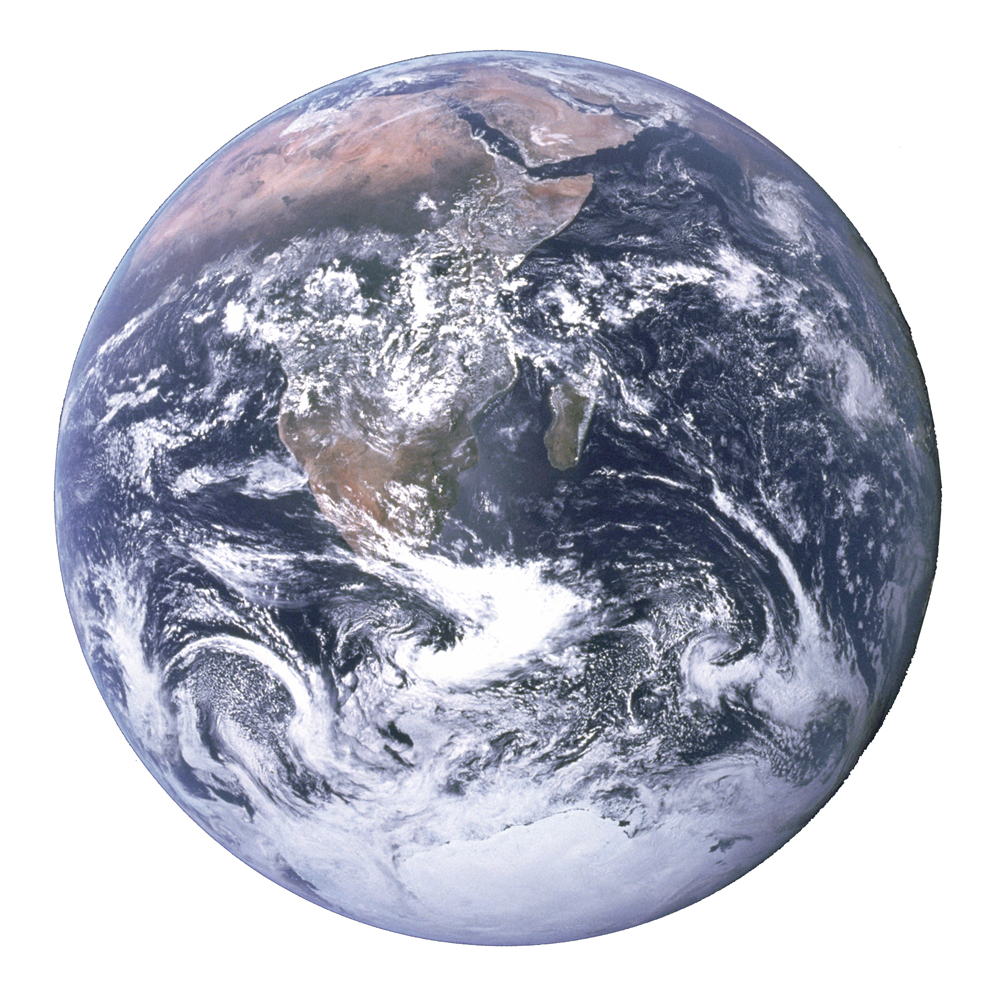 Modified version of Image:The Earth seen from Apollo 17.jpg. Original image is PD, therefore